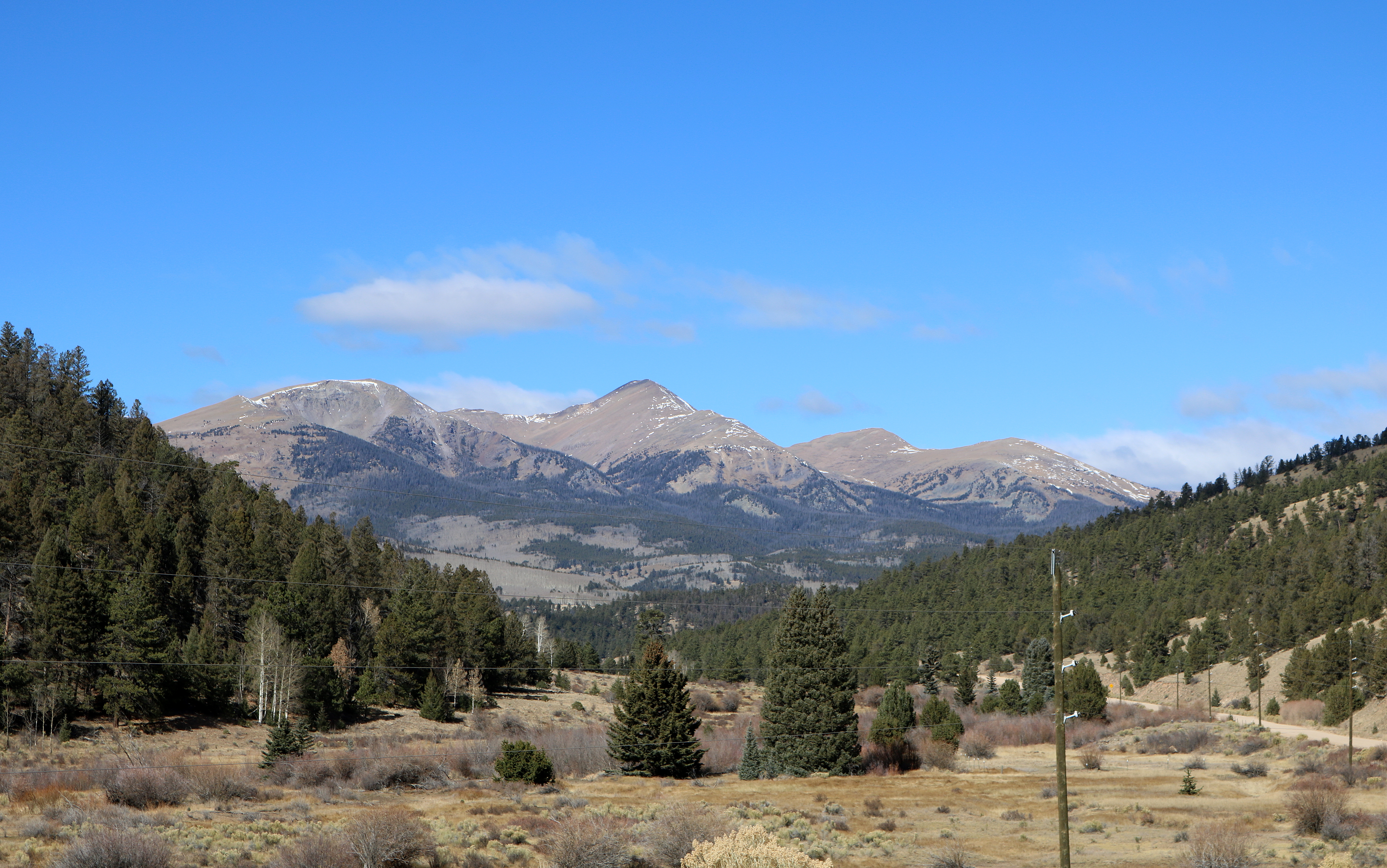 Three mountains in the Sawatch Range of the Southern Rocky Mountains. The peak on the left is called Windy Point. The middle peak is Antora Peak. The peak on the right is Sheep Mountain. The view is from Saguache County Road LL56 south of Bonanza, Colorado.